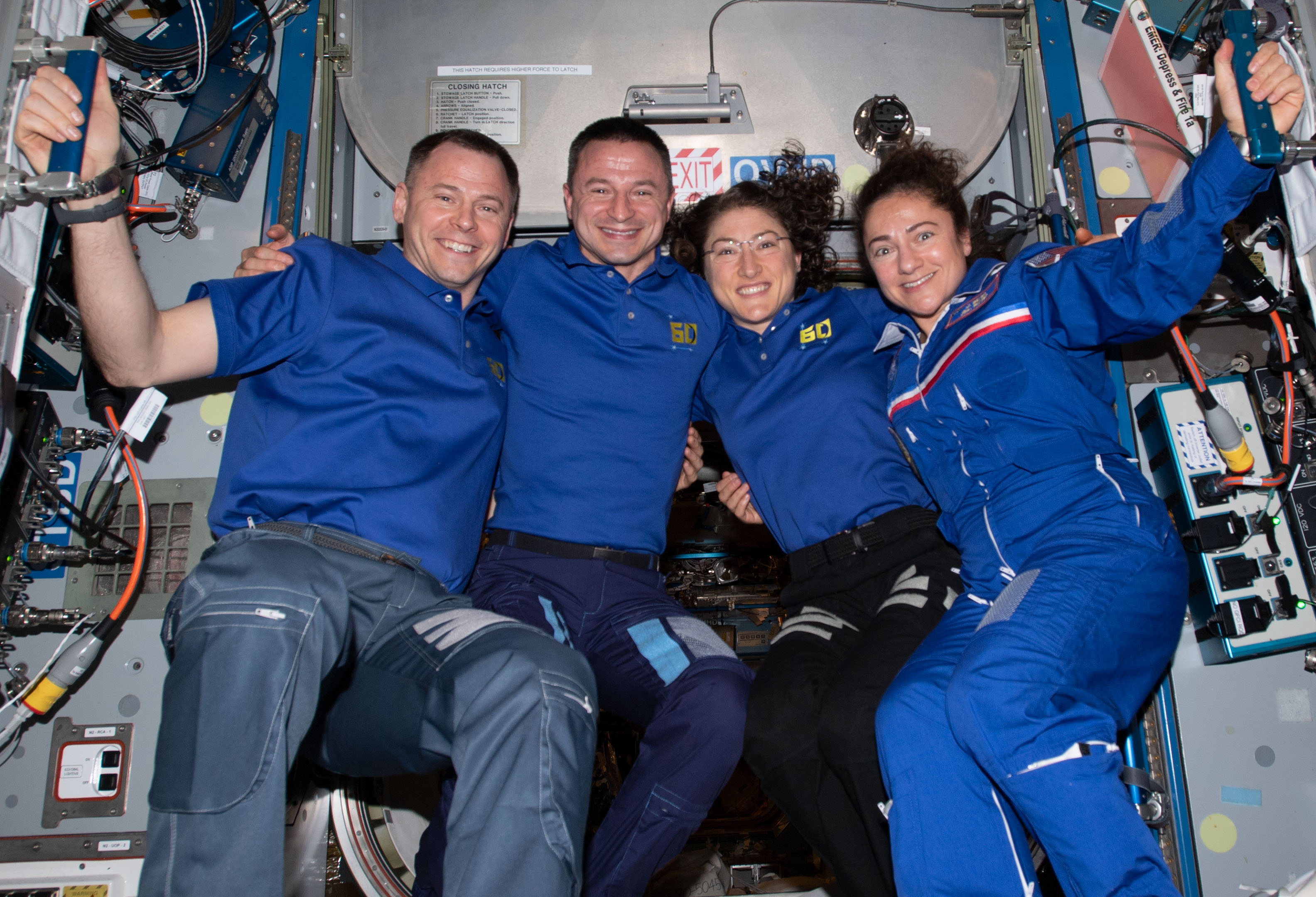 Four NASA astronauts, all members of the Astronaut Class of 2013, pose for a portrait aboard the International Space Station. From left are Flight Engineers Nick Hague, Andrew Morgan, Christina Koch and Jessica Meir.